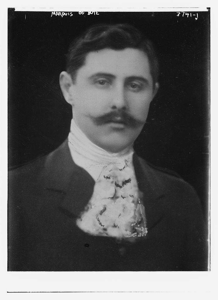 John Crichton-Stuart, 4th Marquess of Bute circa 1915